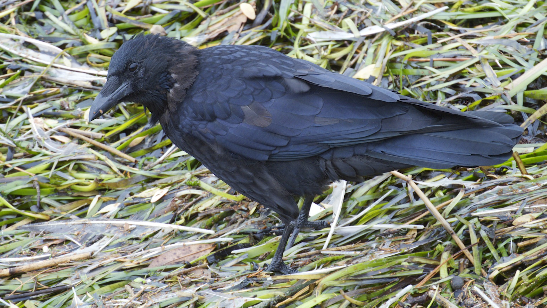 Crows have learnt to scavenge on the shore line too and are often seen at Sandbanks.